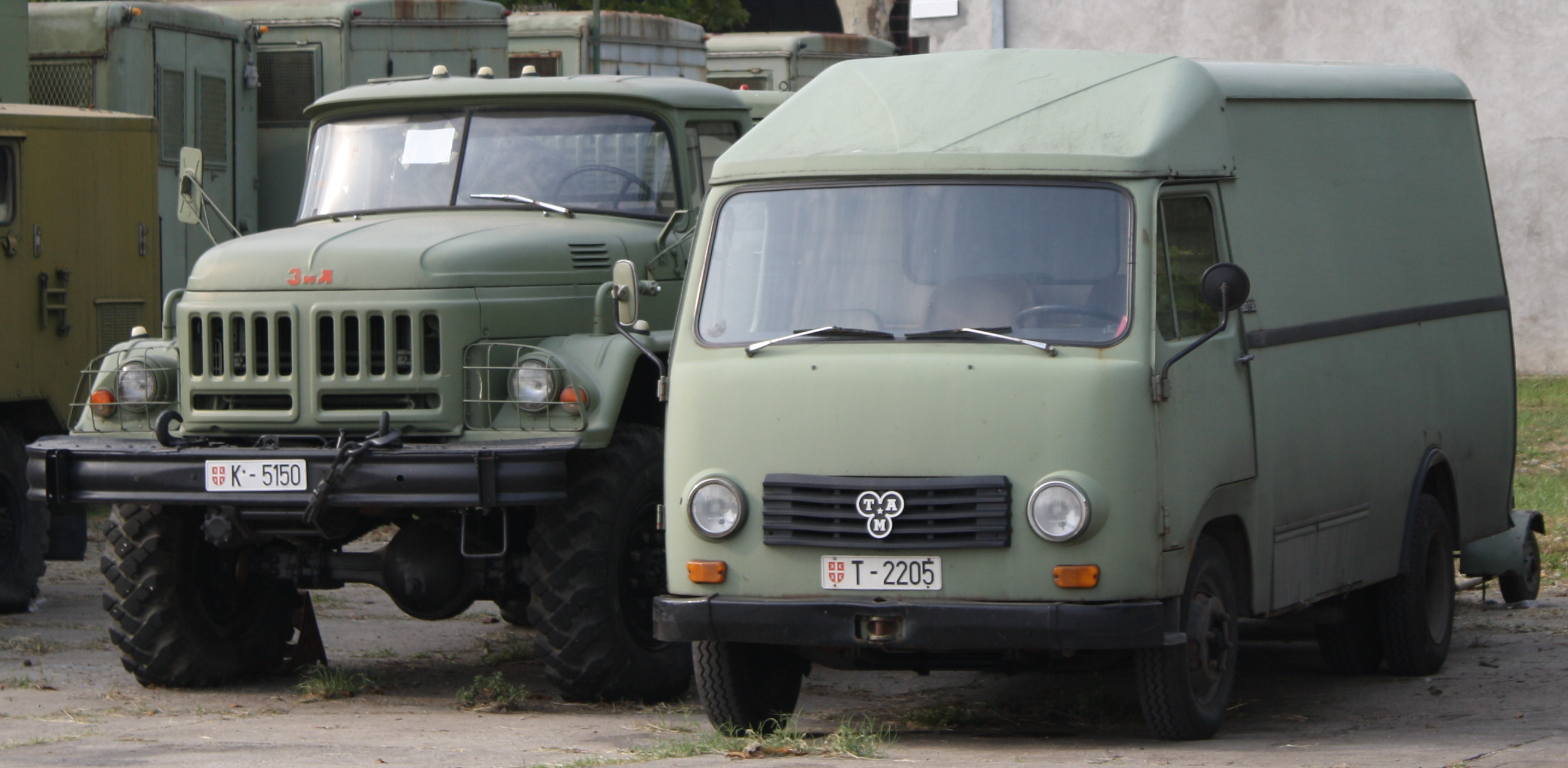 TAM-80 van and ZiL-131 truck at Batajnica Air Base.